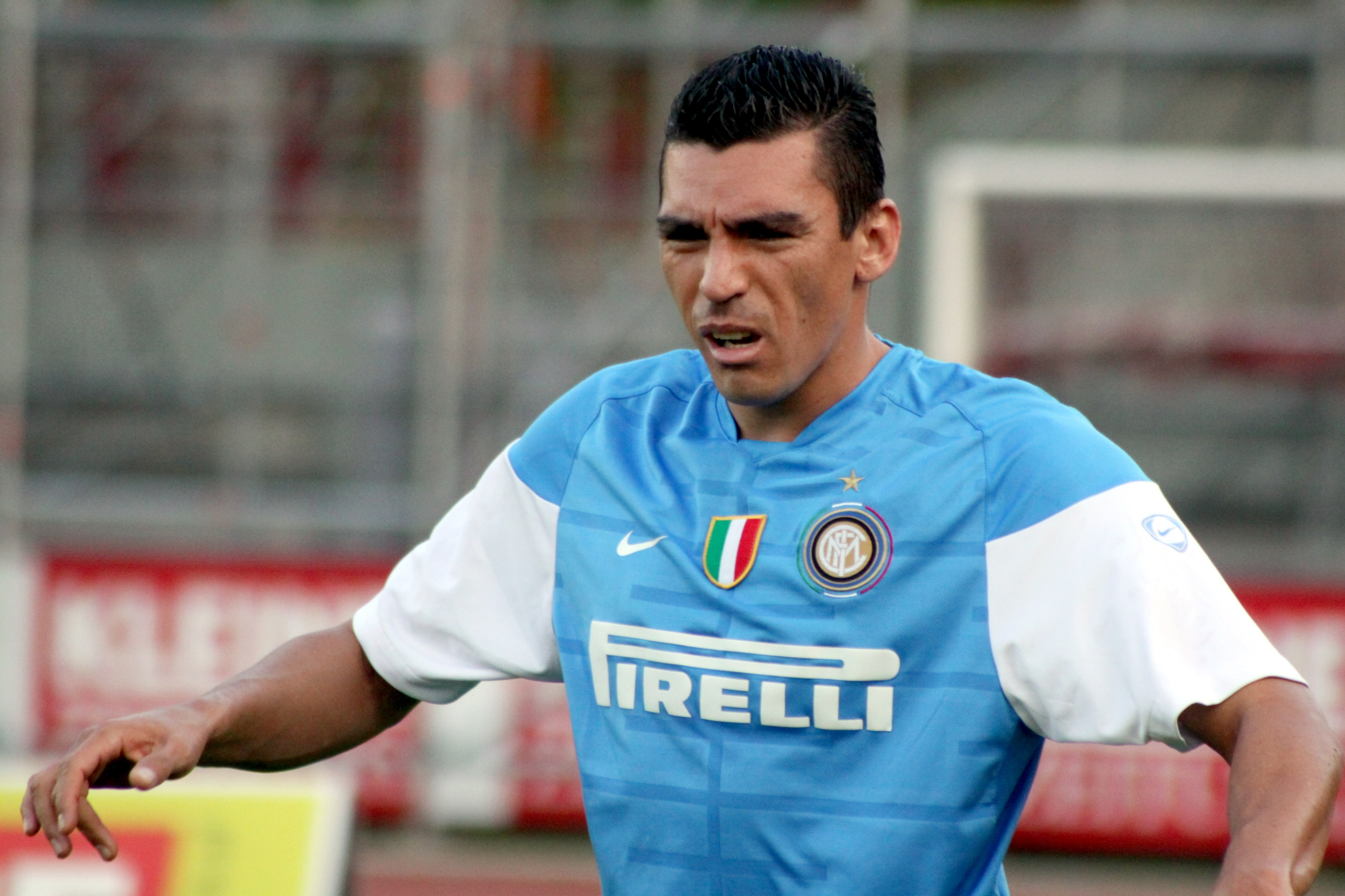 Lúcio - F.C. Internazionale Milano.